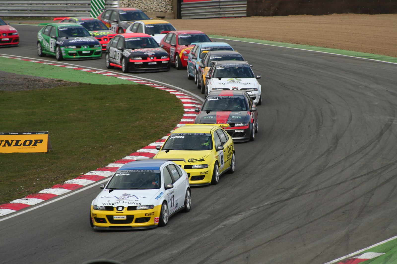 SEAT Leon Cupra championship opening corner